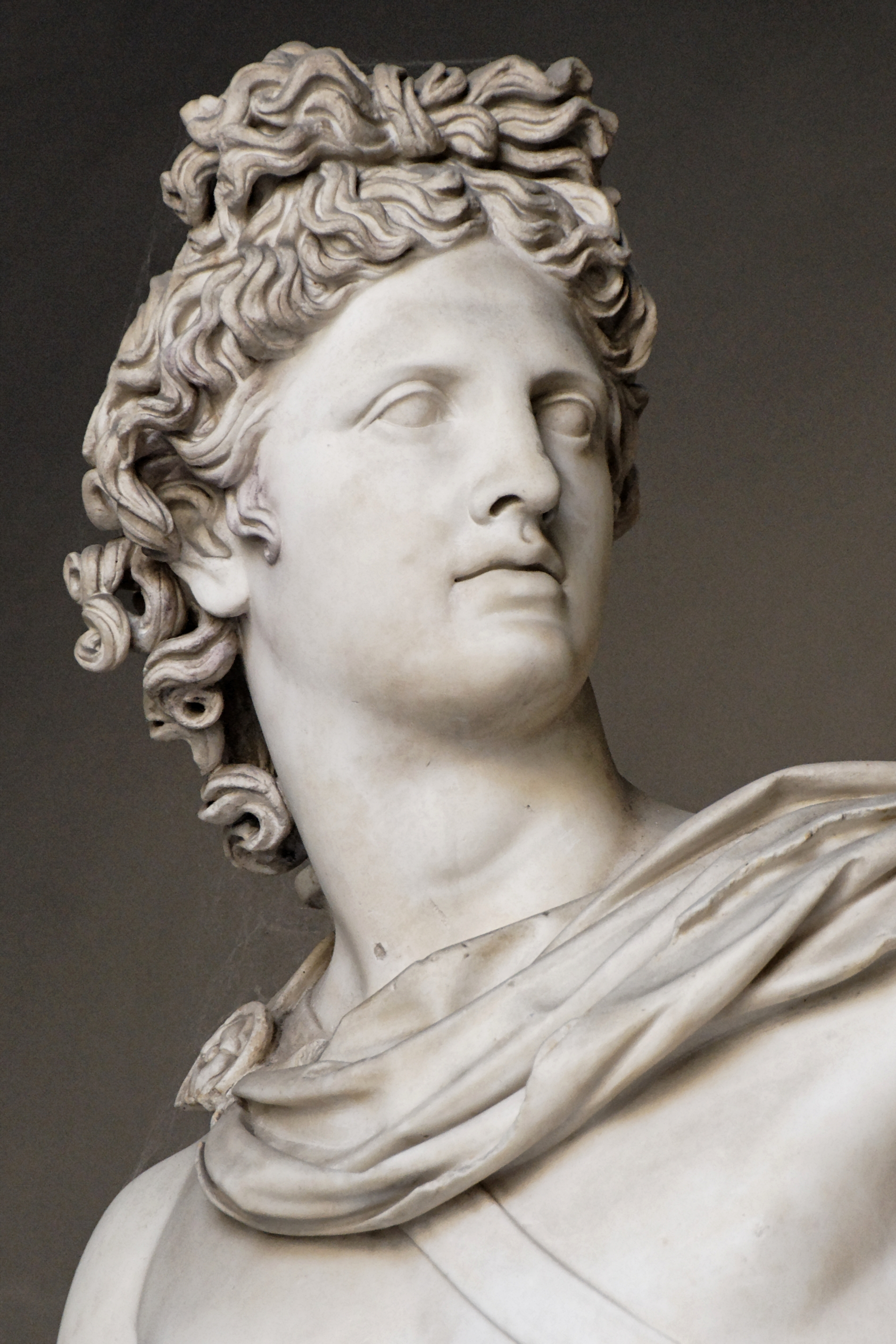 Roman copy after a Greek bronze original of 330–320 BC. attributed to Leochares. Found in the late 15th century.